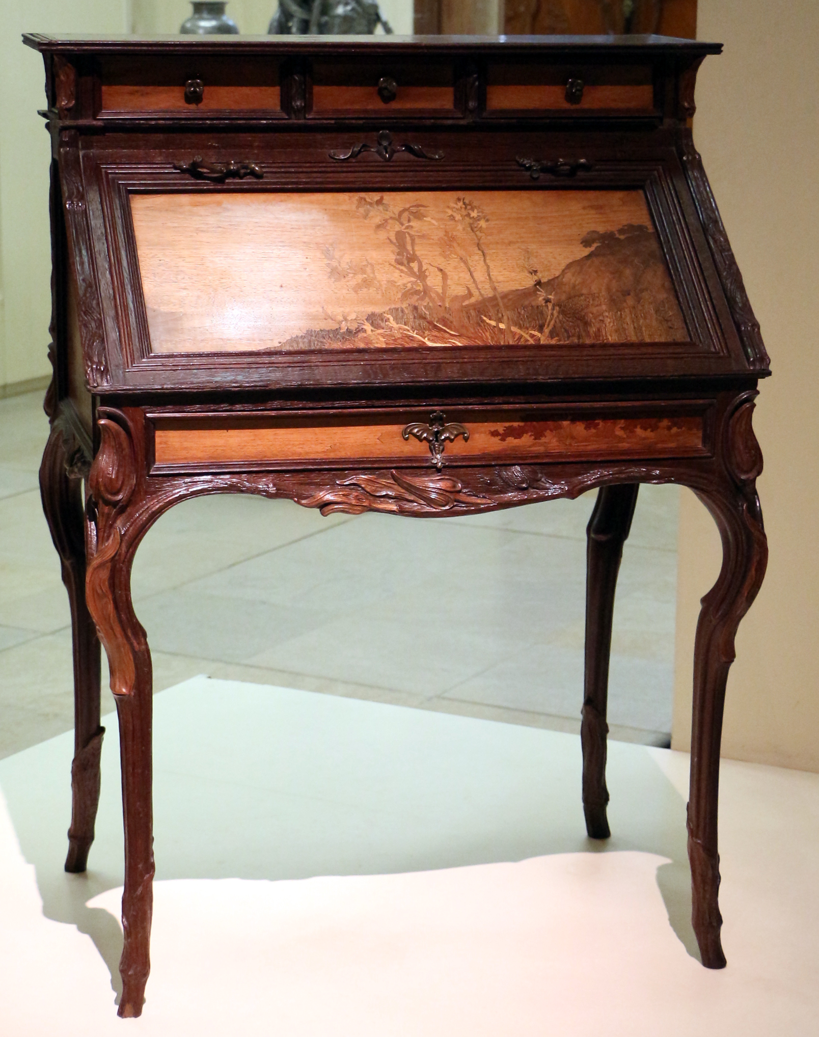 Decorative arts in the Musée d'Orsay